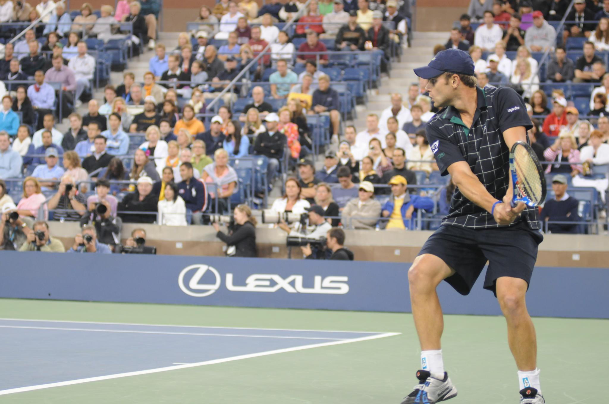 Andy Roddick at the 2009 US Open